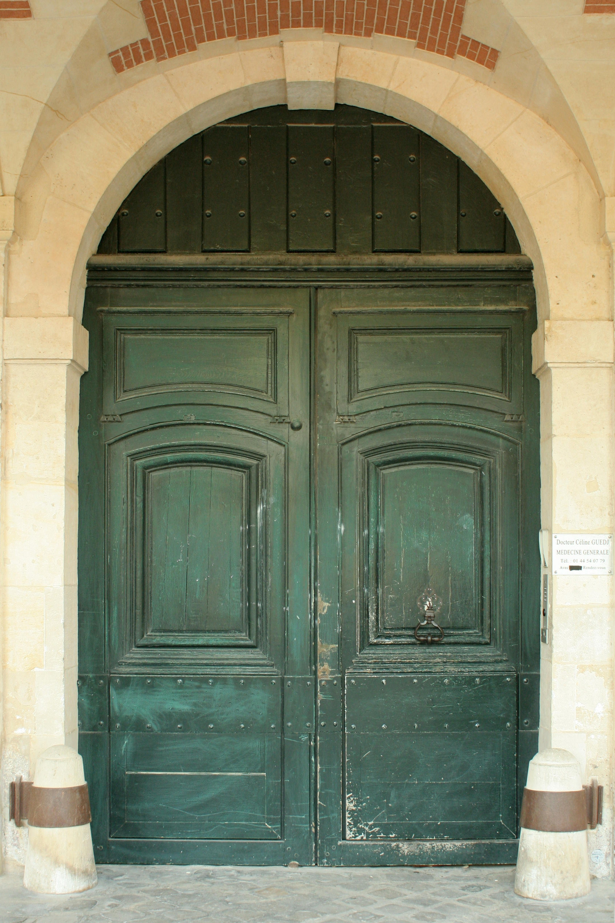 Door of 15 Place des Vosges, Paris.